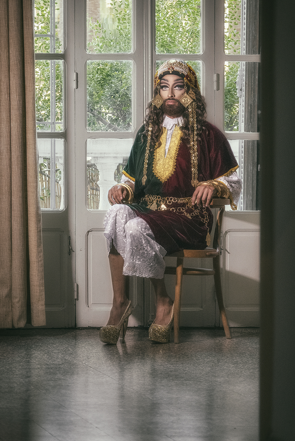 Khookha McQueer's autoportrait